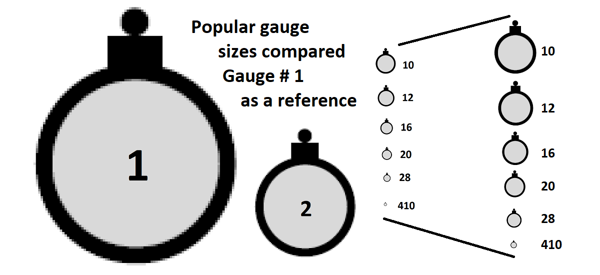 Popular gauge sizes compared using gauge #1 for reference